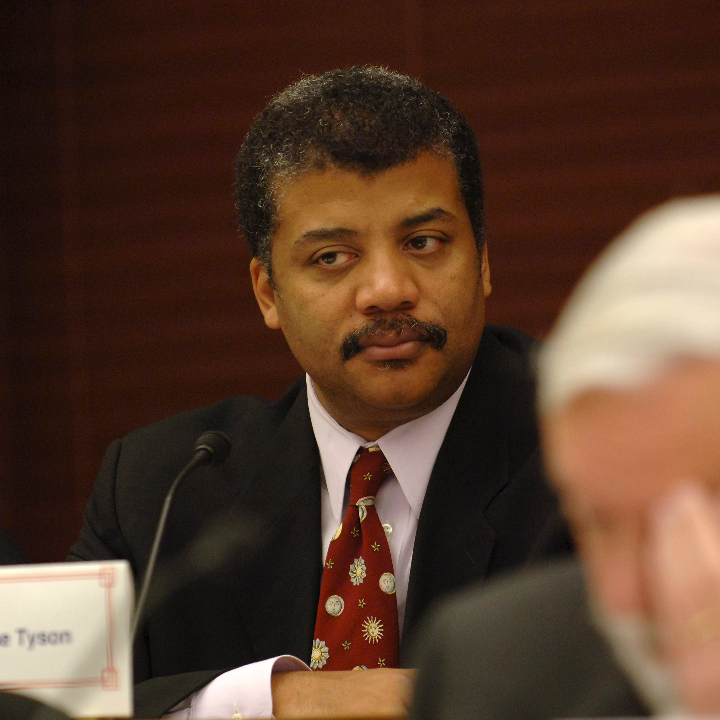 Dr. Neil deGrasse Tyson at the November 29, 2005 meeting of the NASA Advisory Council, in Washington, D.C.